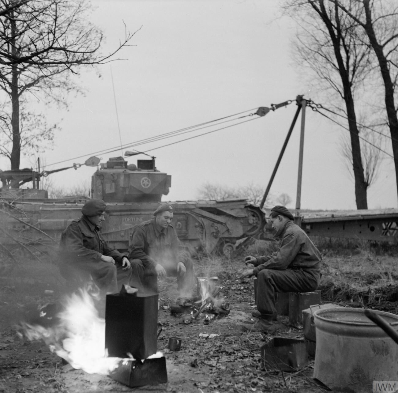 The British Army in North-west Europe 1944-45 The crew of a Churchill AVRE with SBG (Small Box Girder) bridge warm themselves around a fire near Venlo, 30 November 1944.